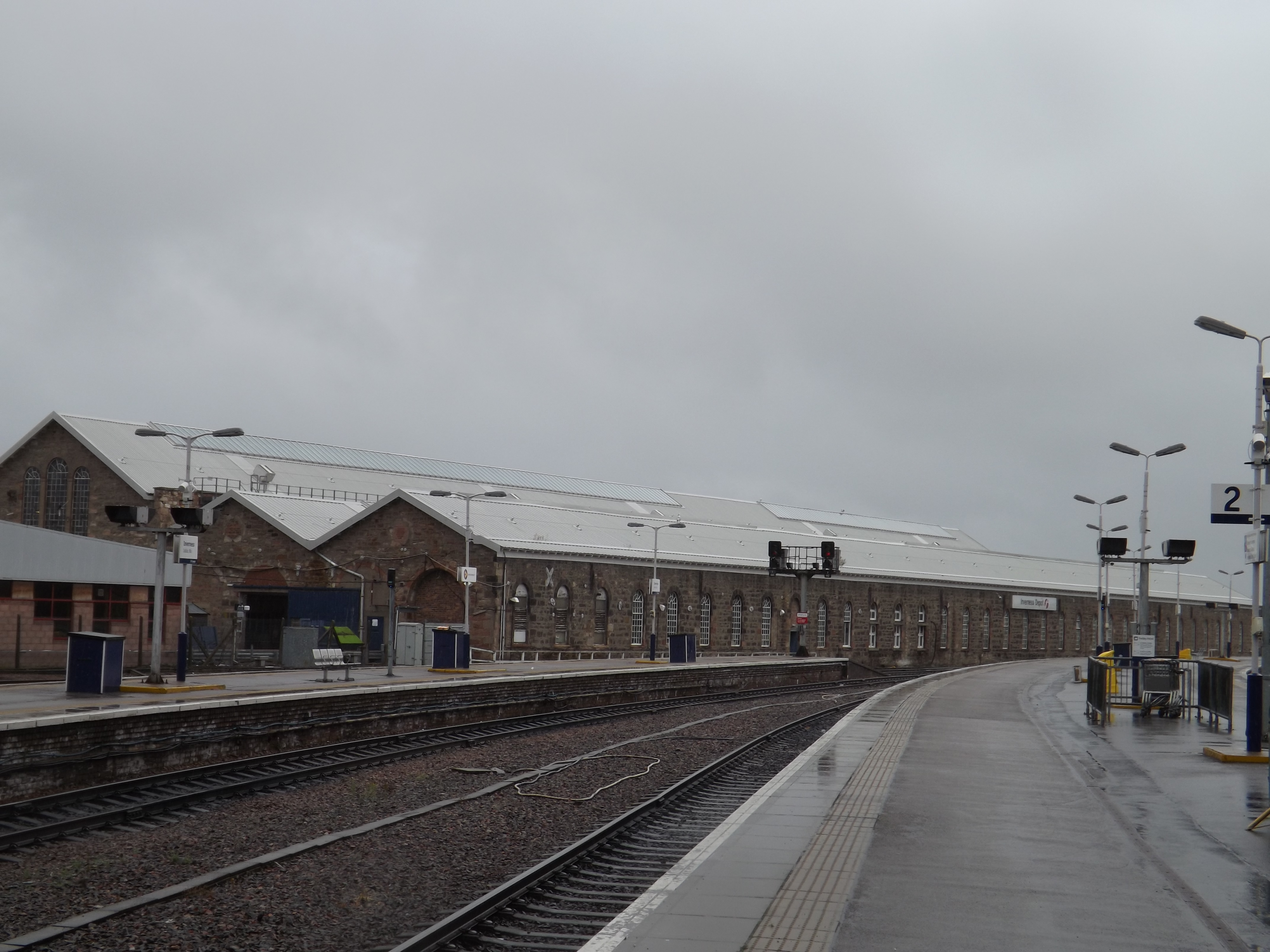 Lochgorm Loco shed, built by the Highland Railway, now Inverness Traction Maintenance Depot